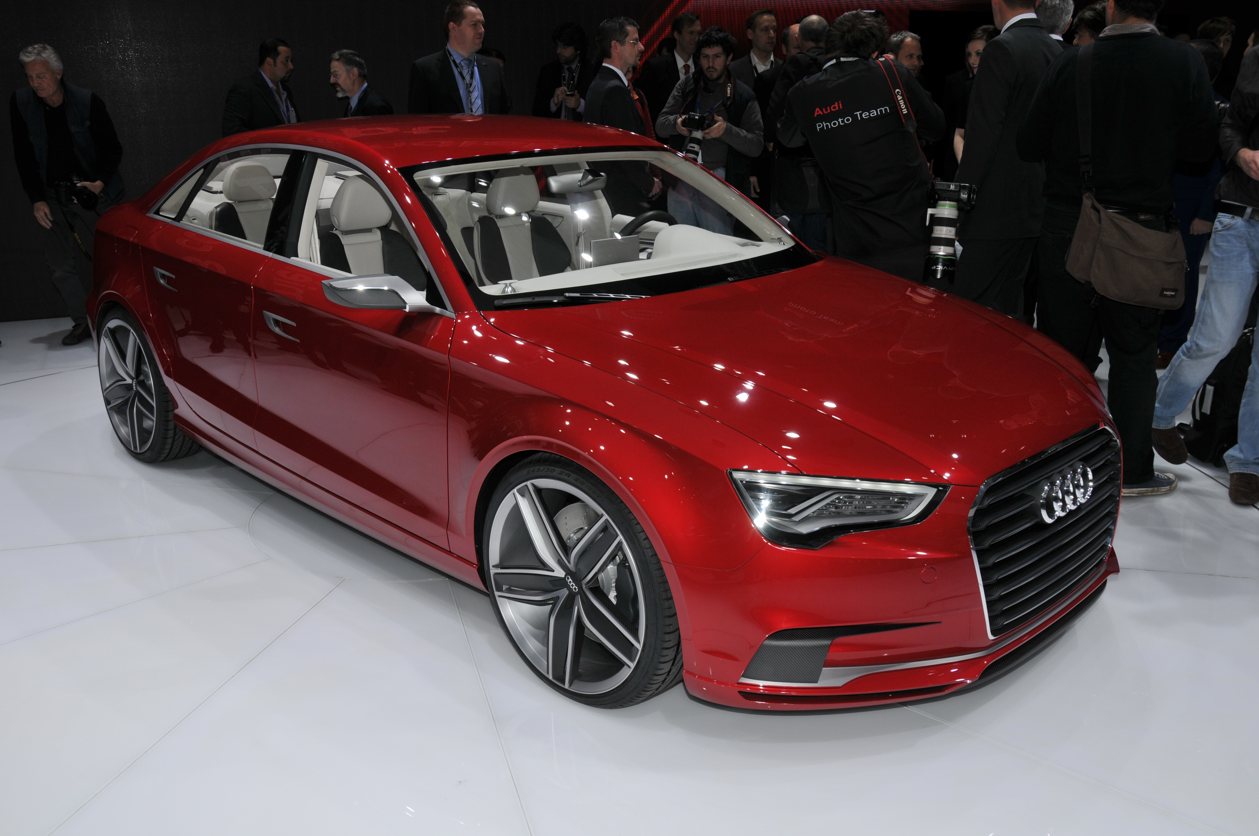 The Audi A3 sedan concept was introduced at the 2011 Geneva Motor Show